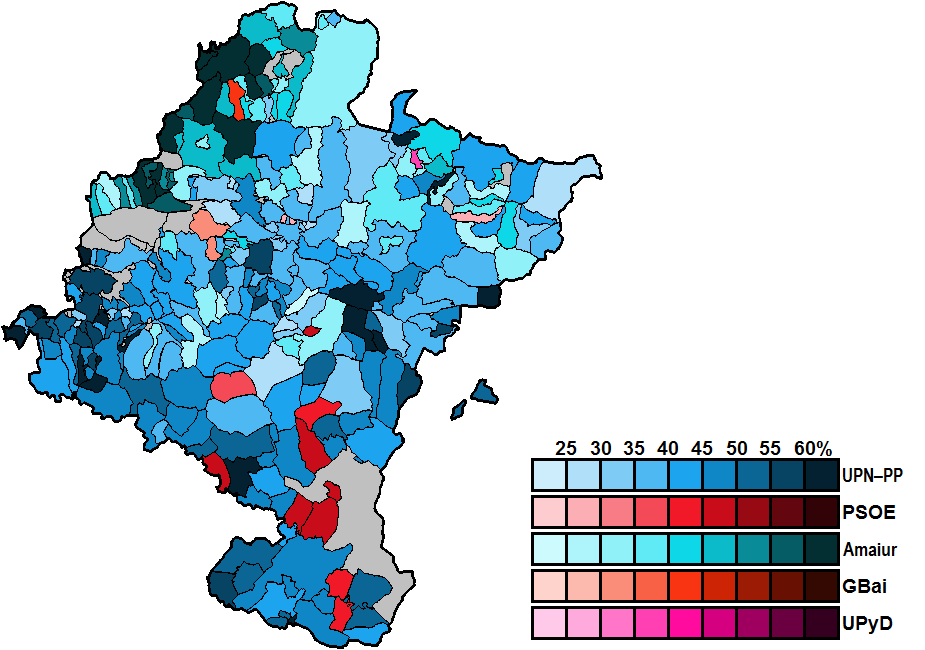 Most-voted party in Navarre municipalities, showing vote share obtained, in the Spanish general election, 2011.